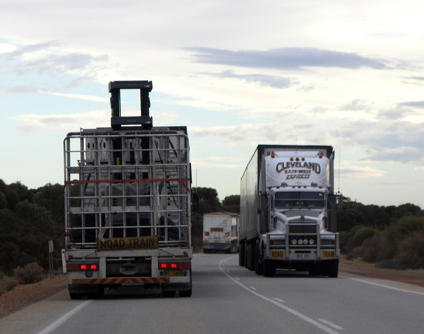 Three road trains passing each other in Western Australia.